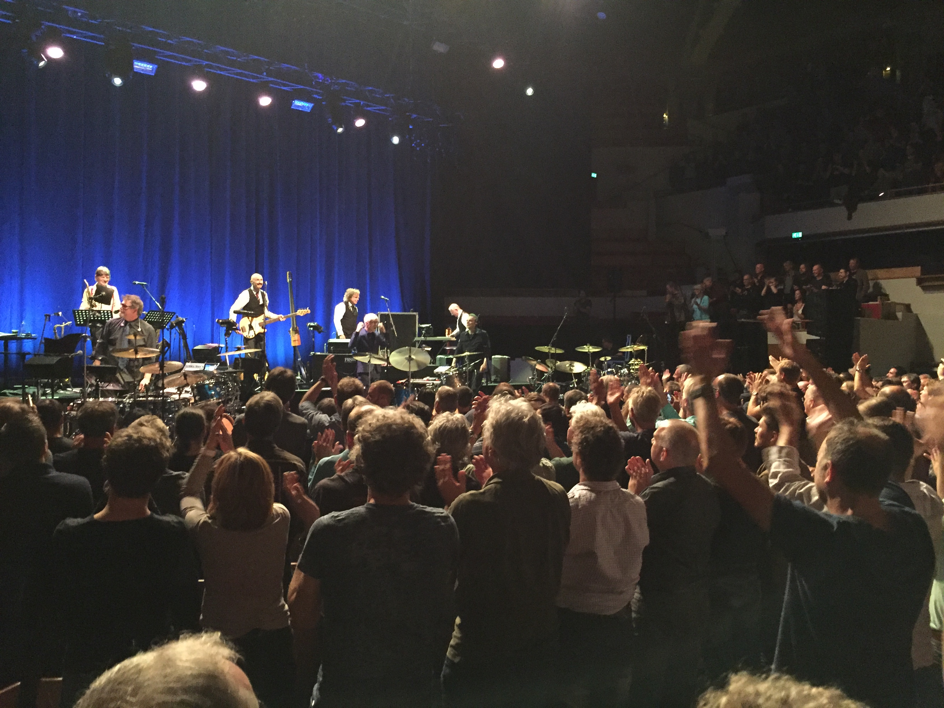 King Crimson in Utrecht